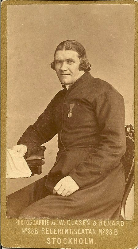 Swedish politician from late nineteenth century